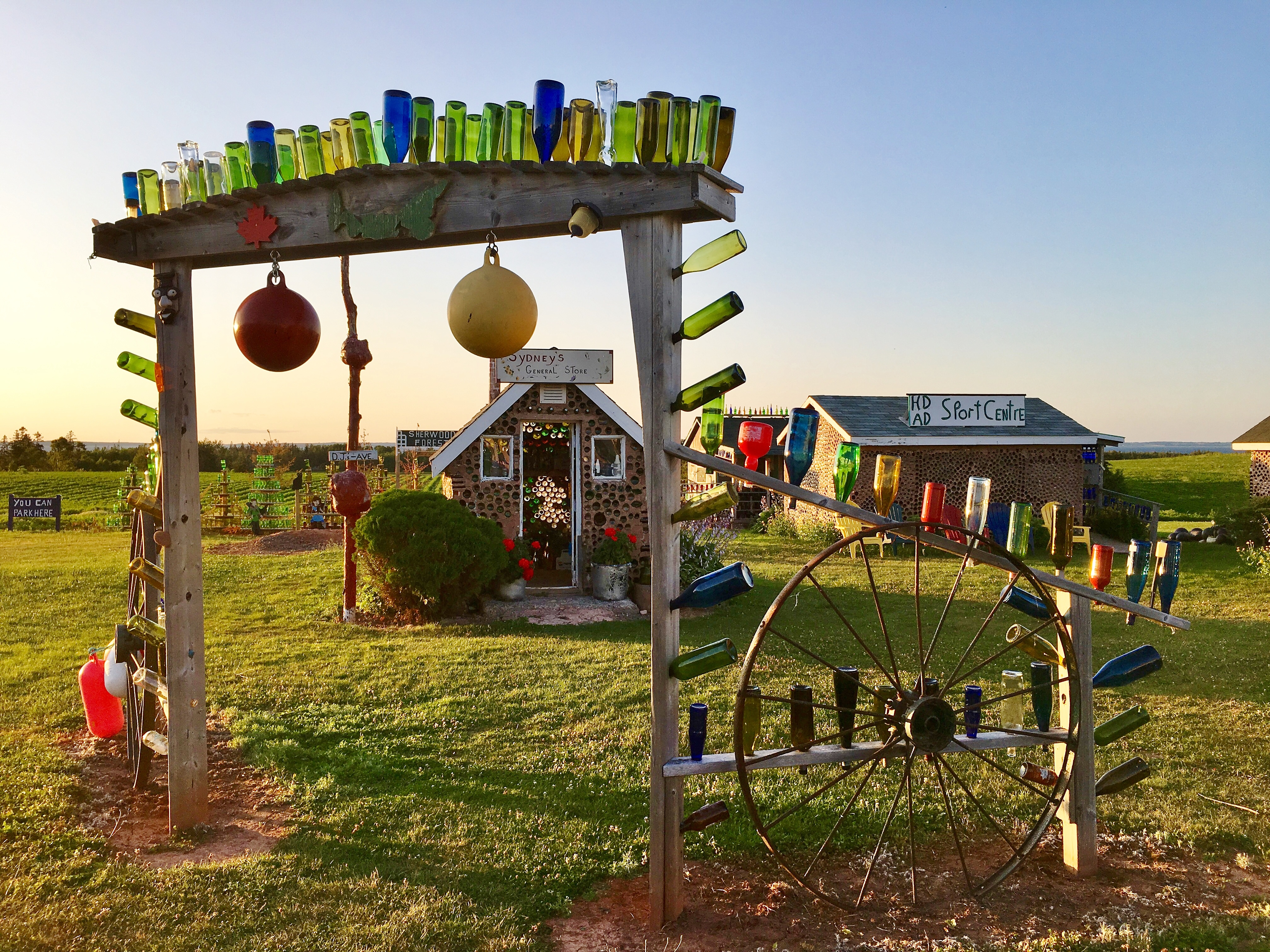 Photograph of one of the structures at Hannah's Bottle Village, located in Belfast, Prince Edward Island, Canada (August 5, 2019)